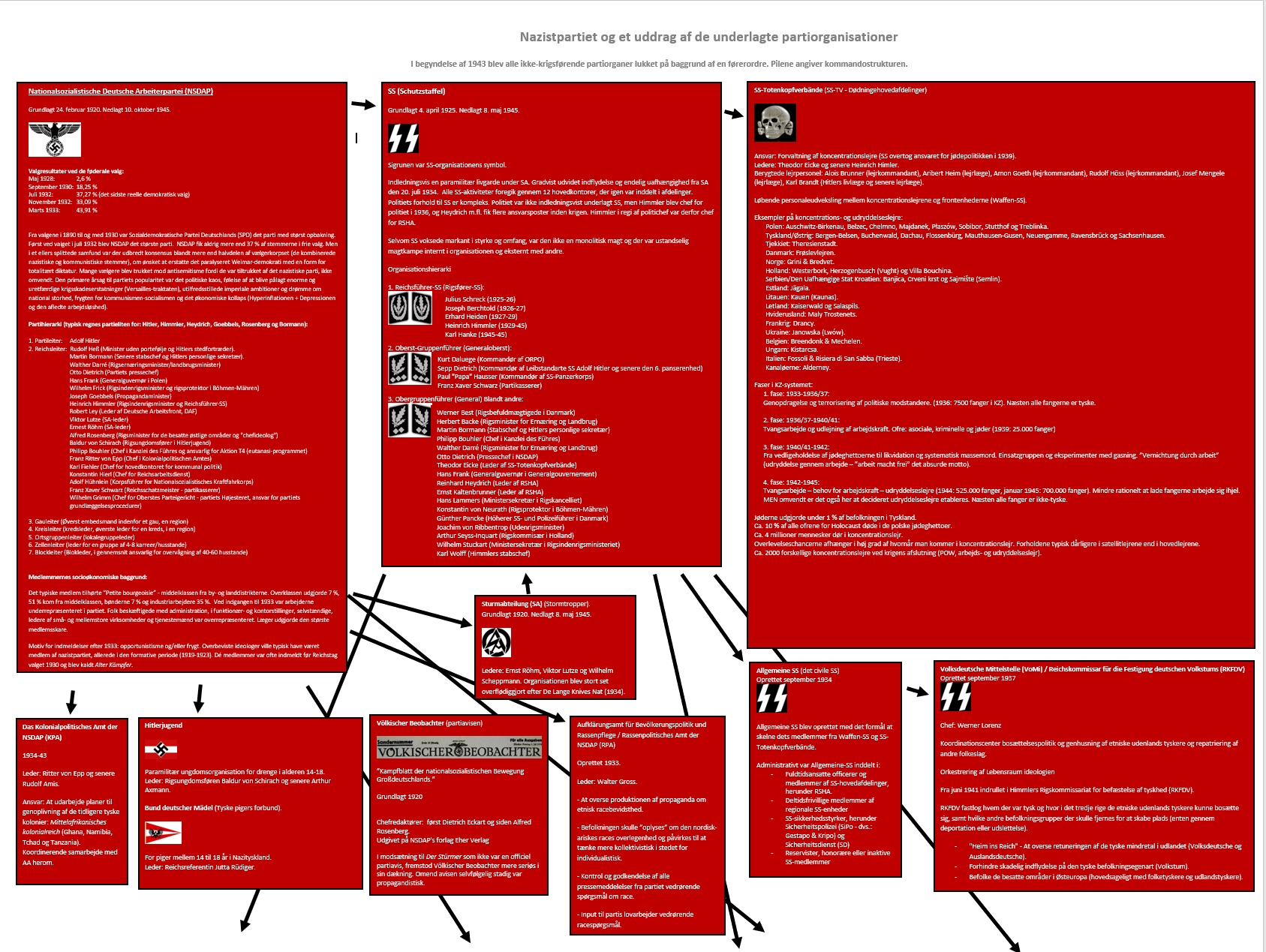 The National Socialist German Workers' Party and it's associated organizations.